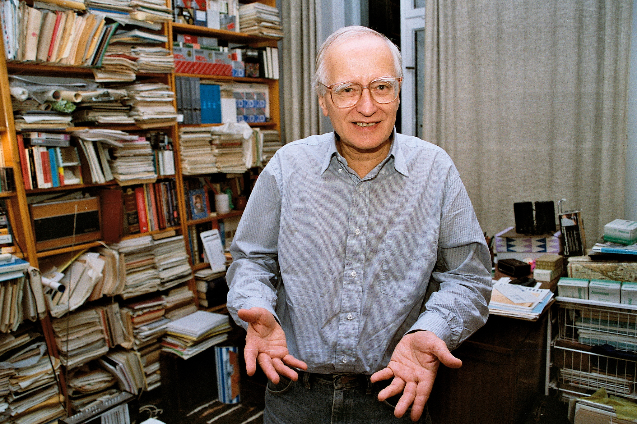 Polish scientist